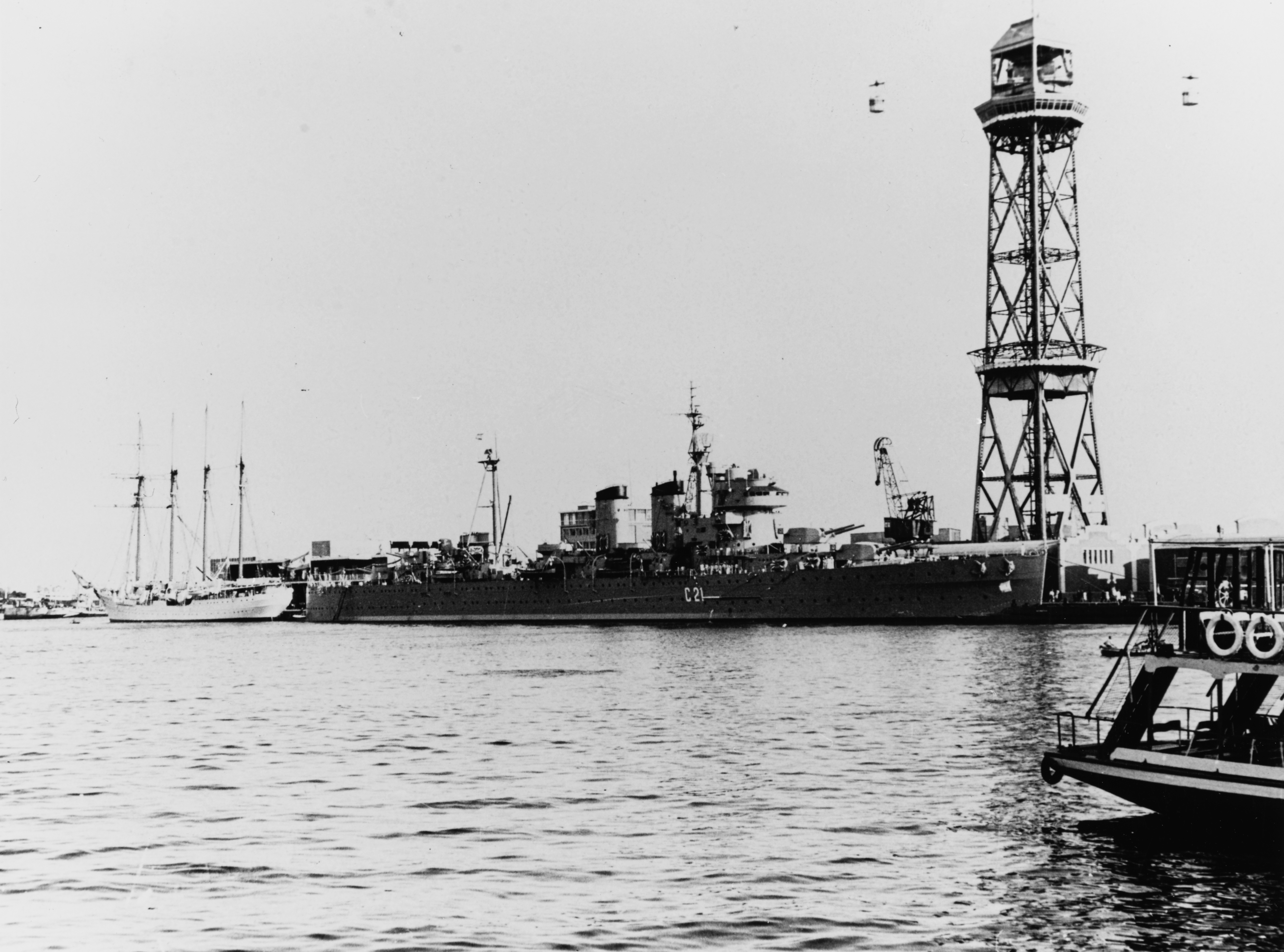 The Spanish heavy cruiser Canarias (C21) at Barcelona, Spain, in about 1970. Note the large tower to the right for the gondola transport system going across the harbor.